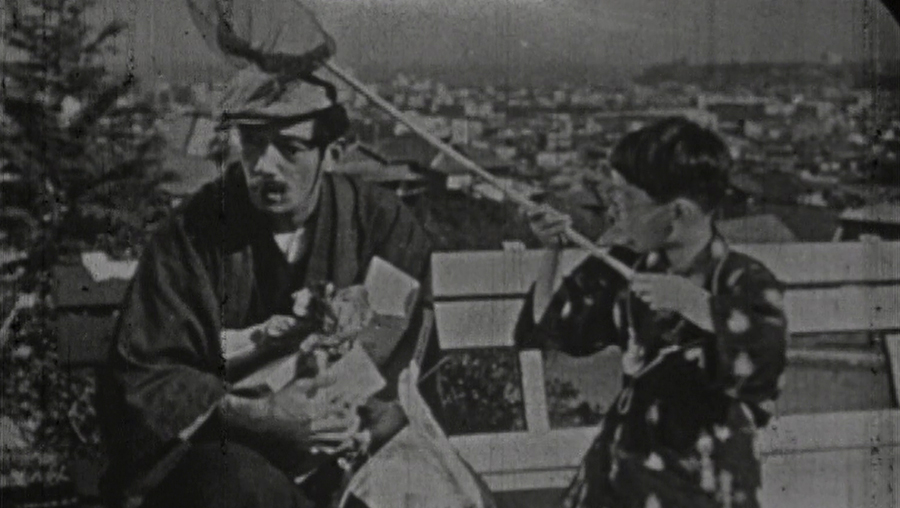 Tatsuo Saitō and Tomio Aoki in Tokkan kozō (1929)